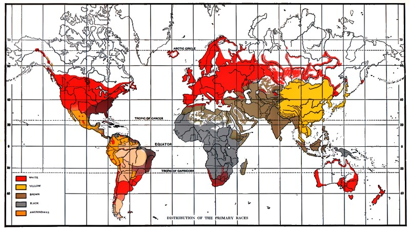 Lothrop Stoddard's "Distribution of the primary races" from Lothrop Stoddard, The Rising Tide of Color Against White World-Supremacy (New York: Charles Scribner's Sons, 1920). Scanned from an original.